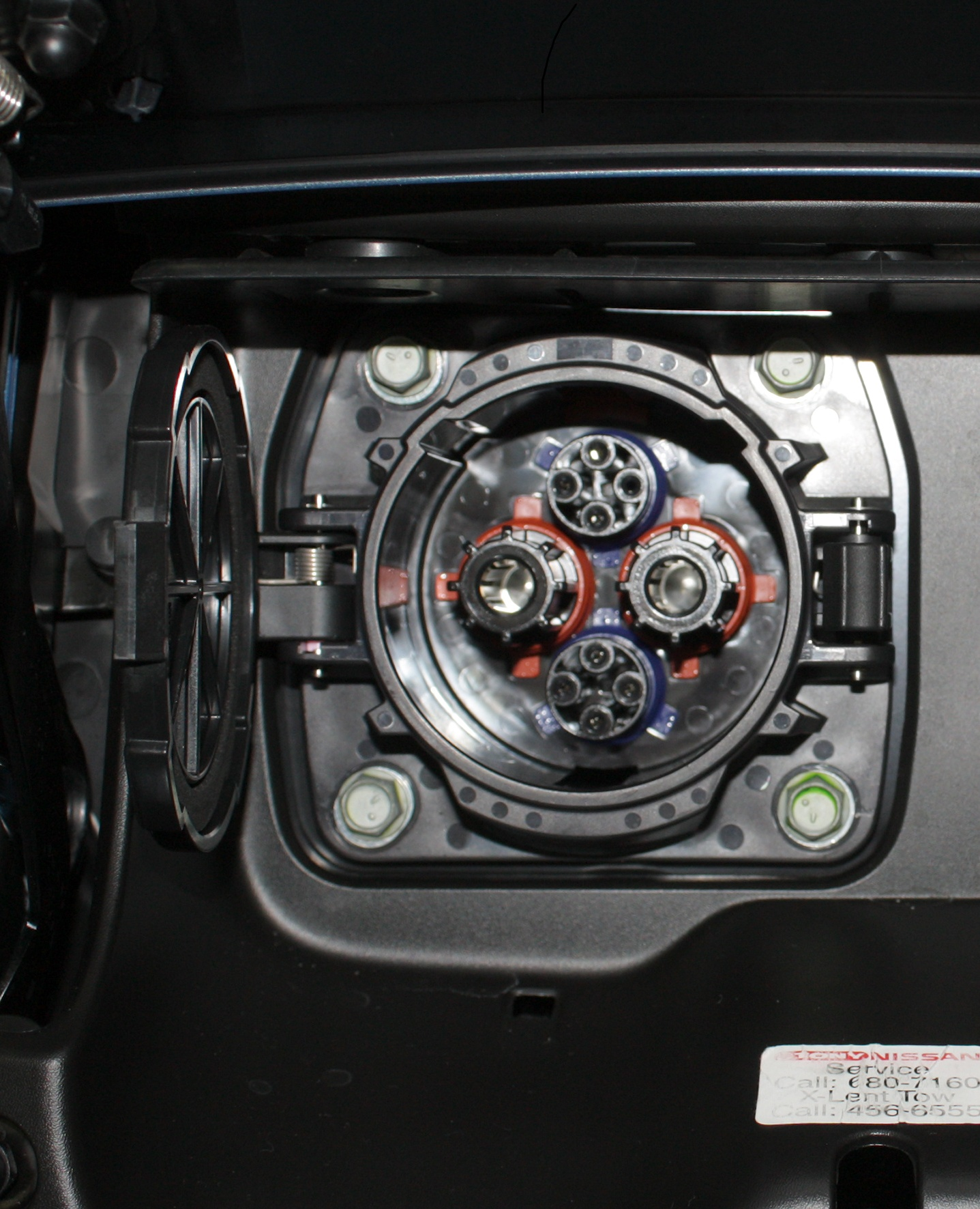 Electric vehicle CHAdeMO inlet